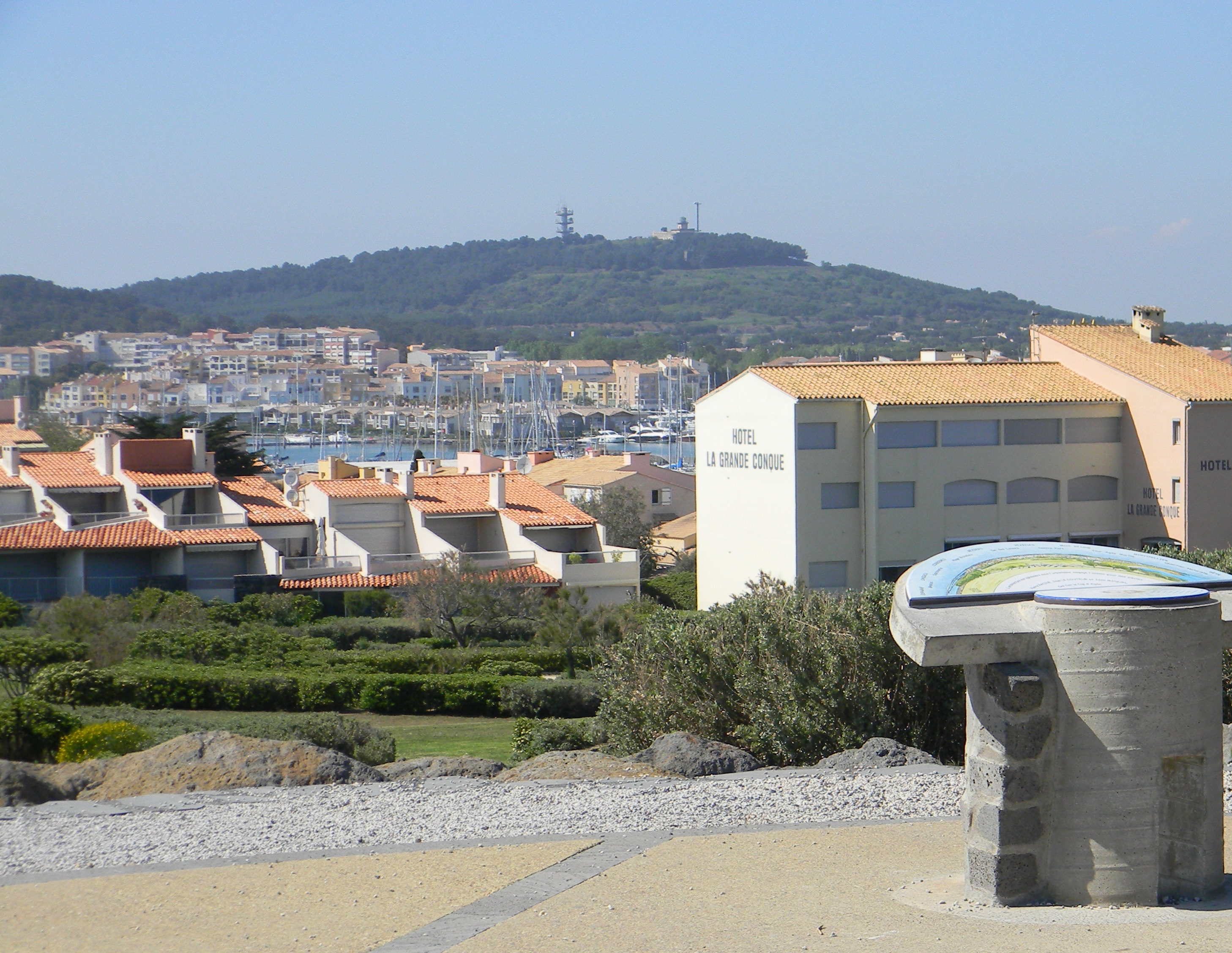 Agde France look from sea side